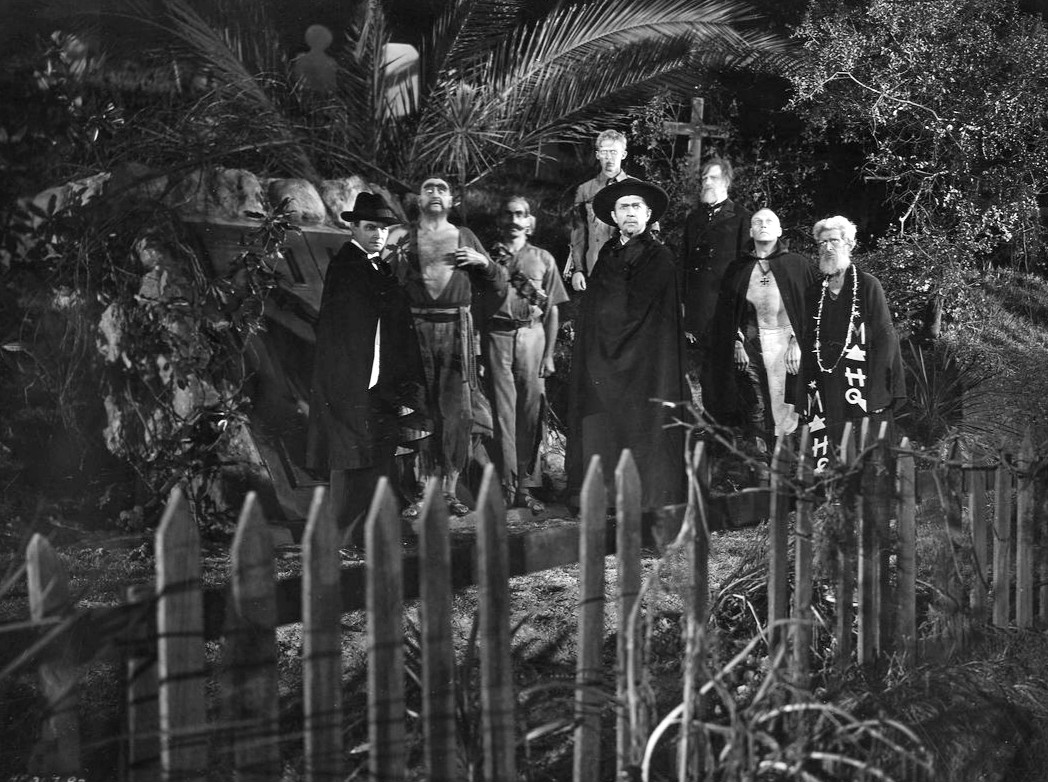 Photo from the 1932 film White Zombie.